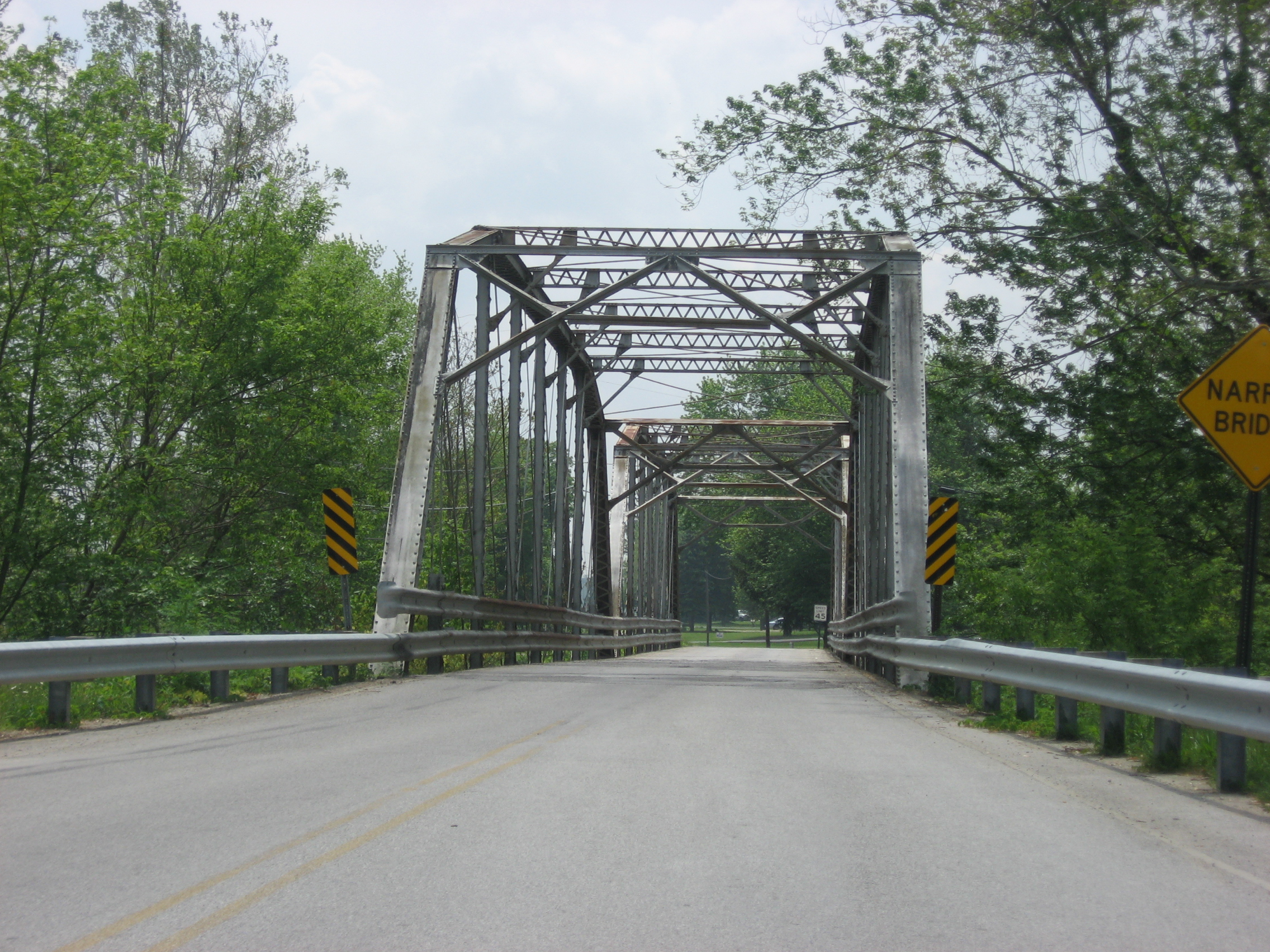 Northern portal of the Rangeline Road Bridge, which carries County Road 475W (Rangeline Road) over the Wabash River just west of Huntington in Huntington Township, Huntington County, Indiana, United States. Built in 1913, it is listed on the National Register of Historic Places.